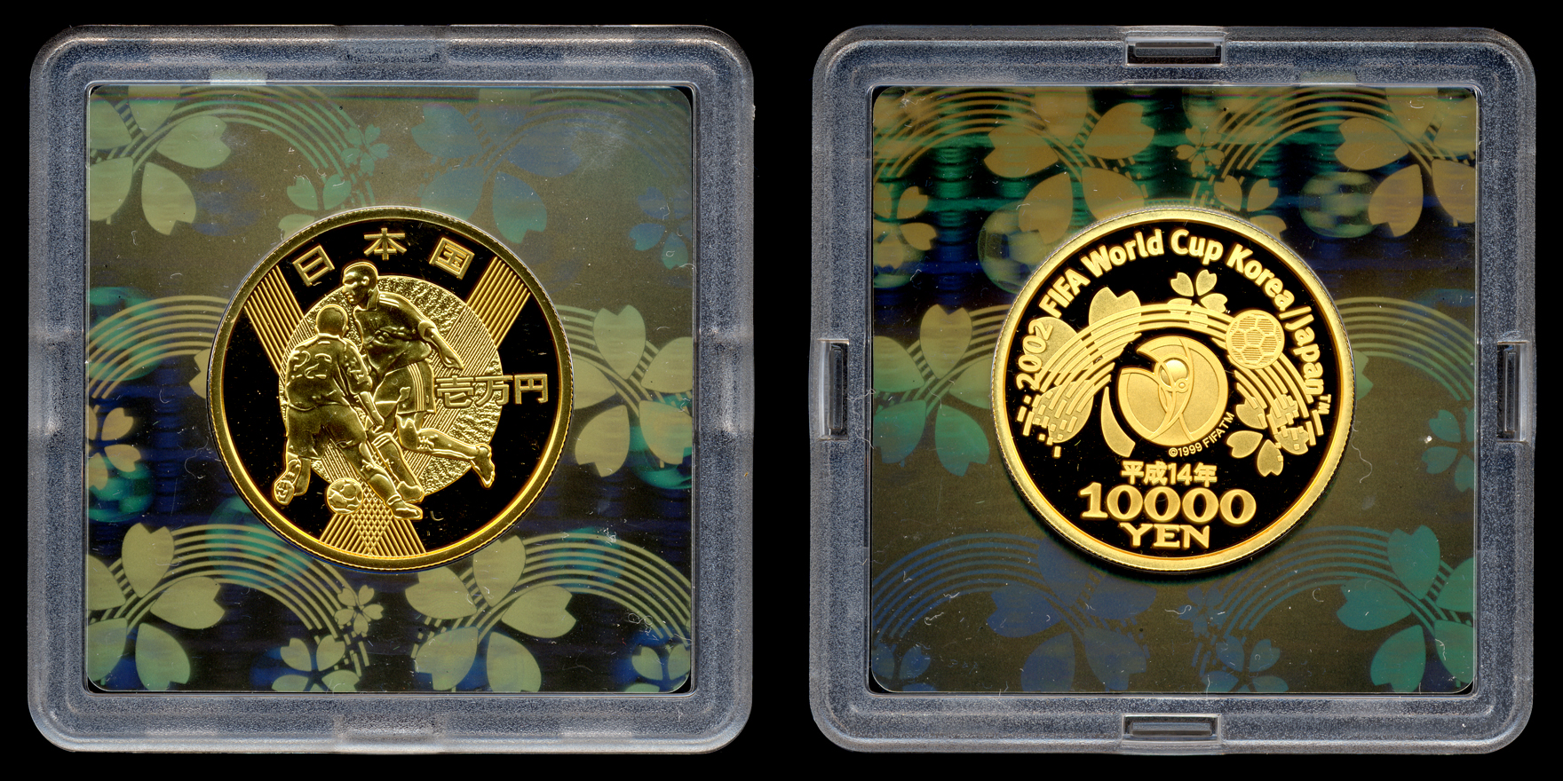 FIFA2002-10000yen